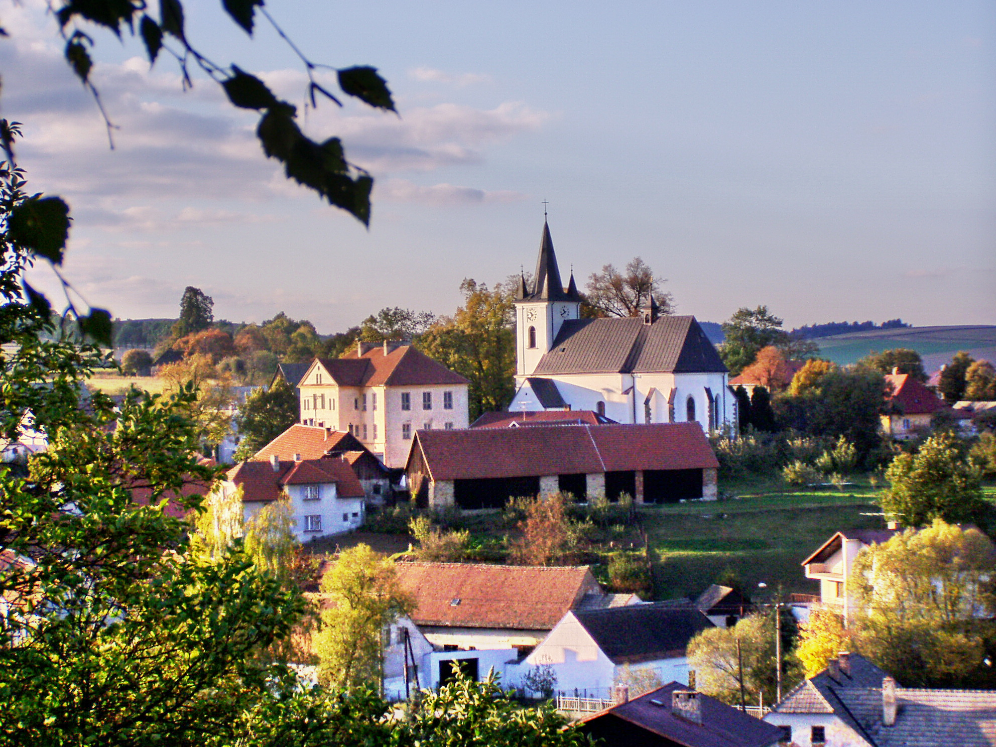 Church of St. Jacob the Elder in Kněžice, Jihlava district, Czech Republic